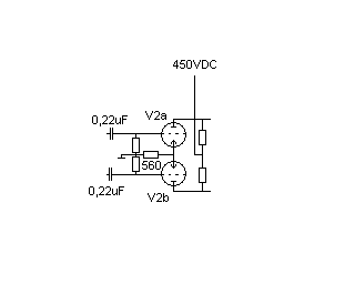 Tube power drive